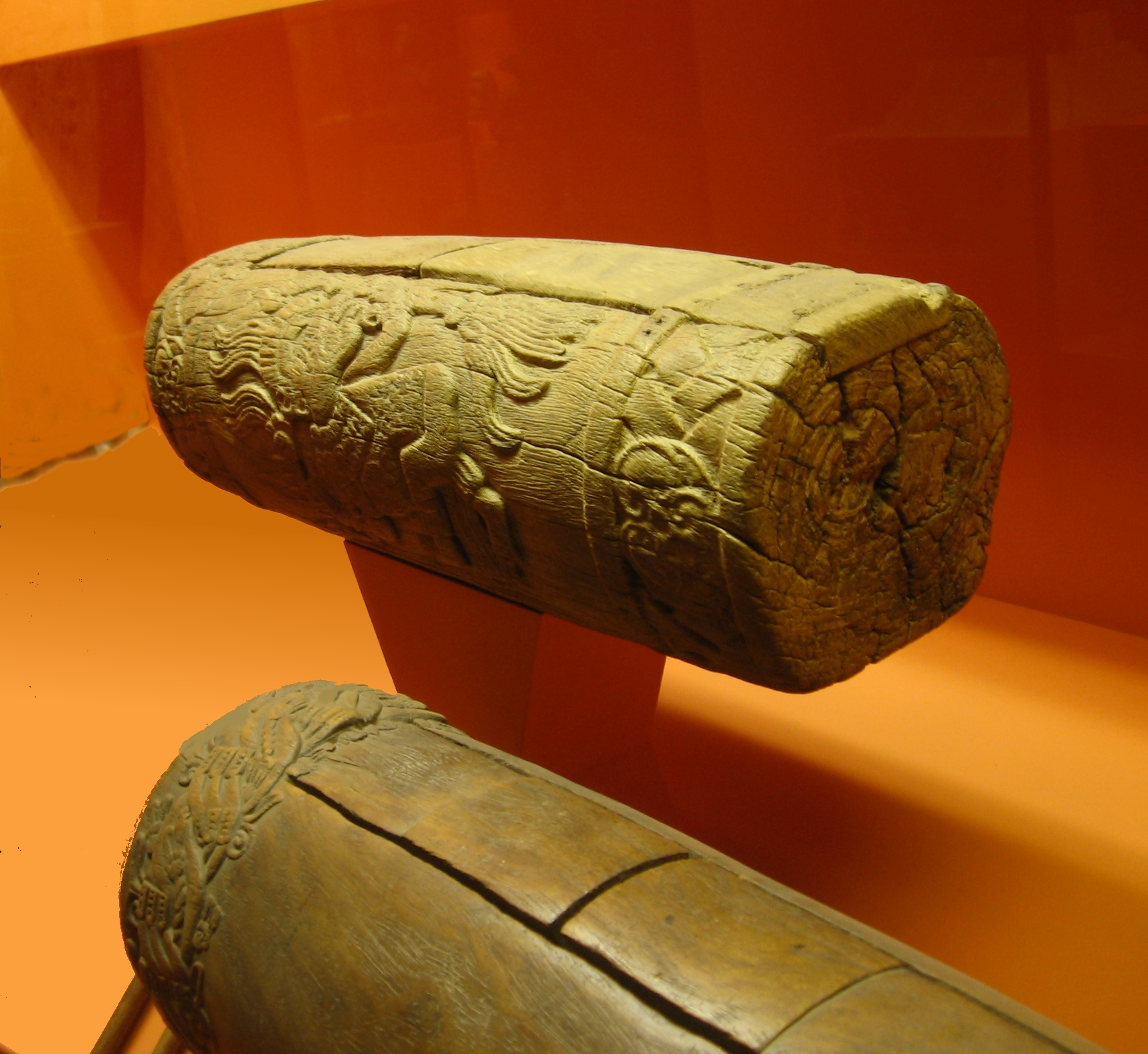 Two teponaztli, Aztec drums. This one was found in Colima. Length: 59 cm (23 in). Nāhuatl: Ōme teponaztli